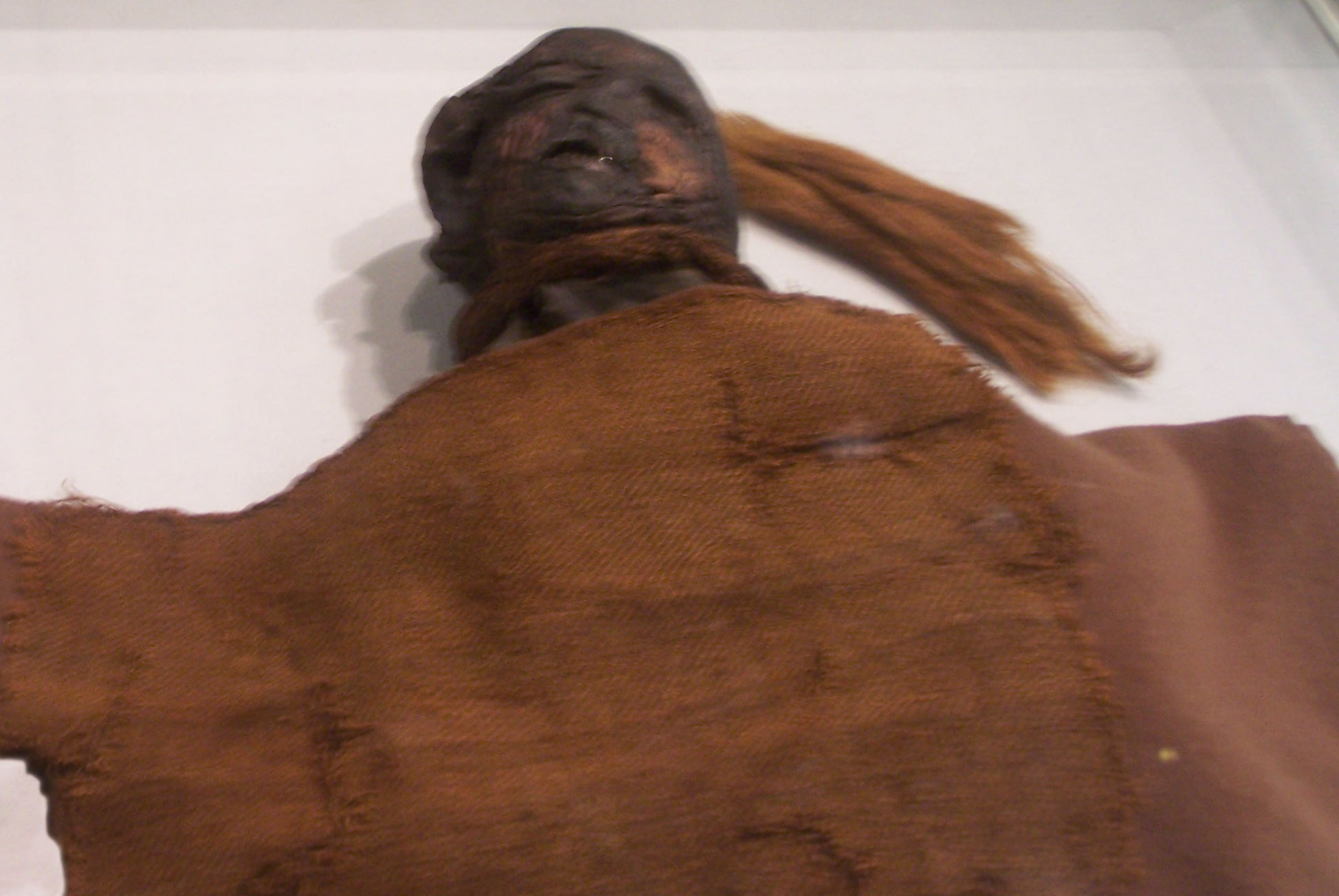 Yde Girl, an iron age bog body excavated 1897 in Stijfveen near Yde, Netherlands. Now on display in Drents Museum Assen.